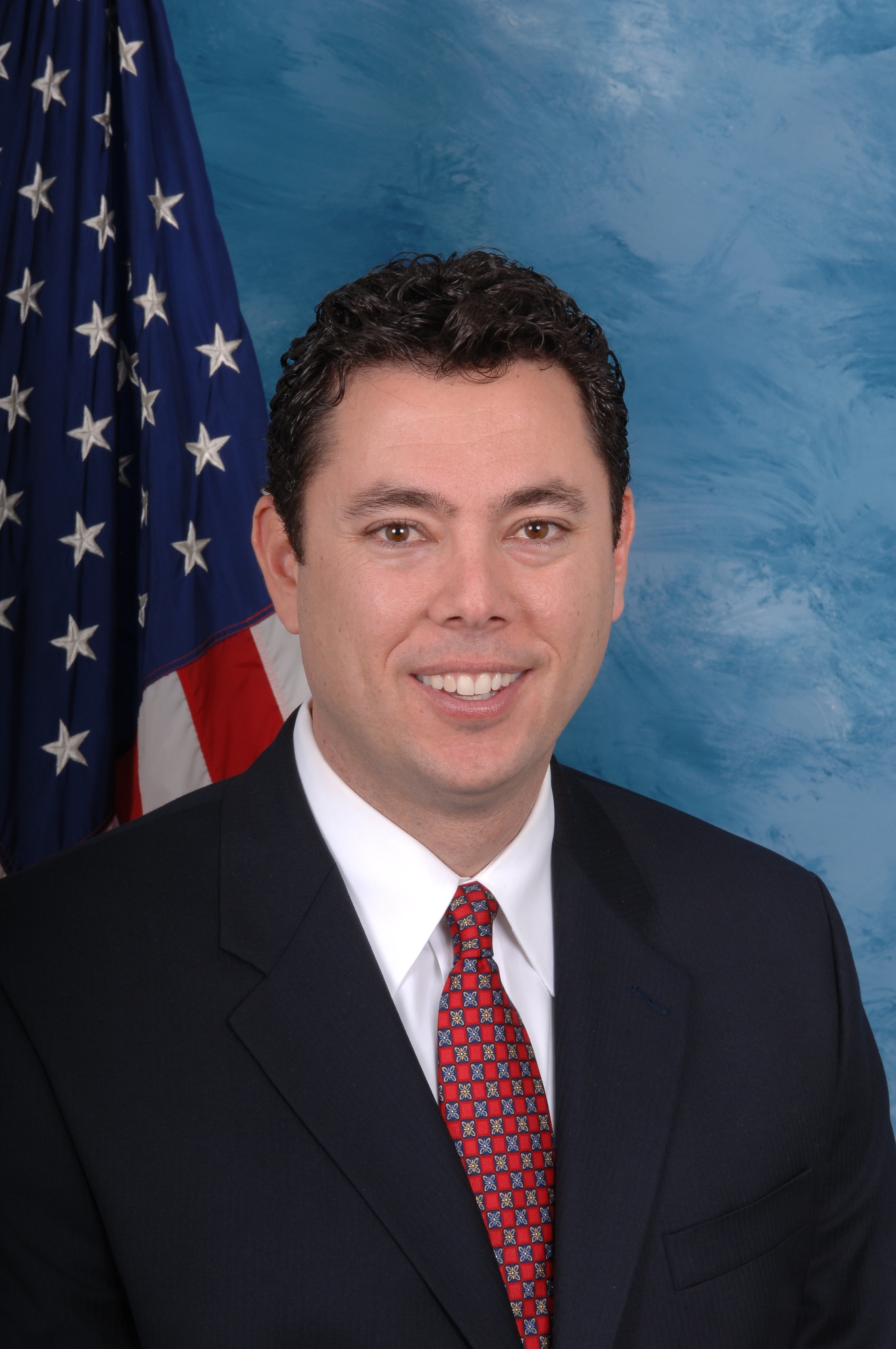 Jason Chaffetz, member of the United States House of Representatives